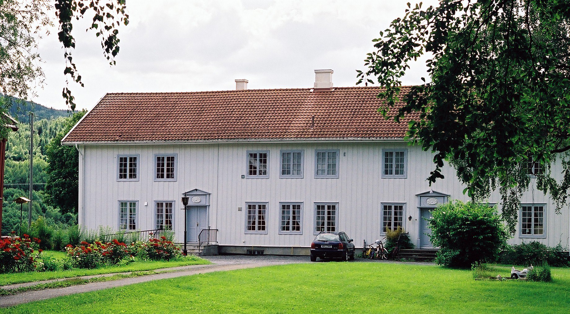 Jevnaker prestegard, Oppland. 18th C.